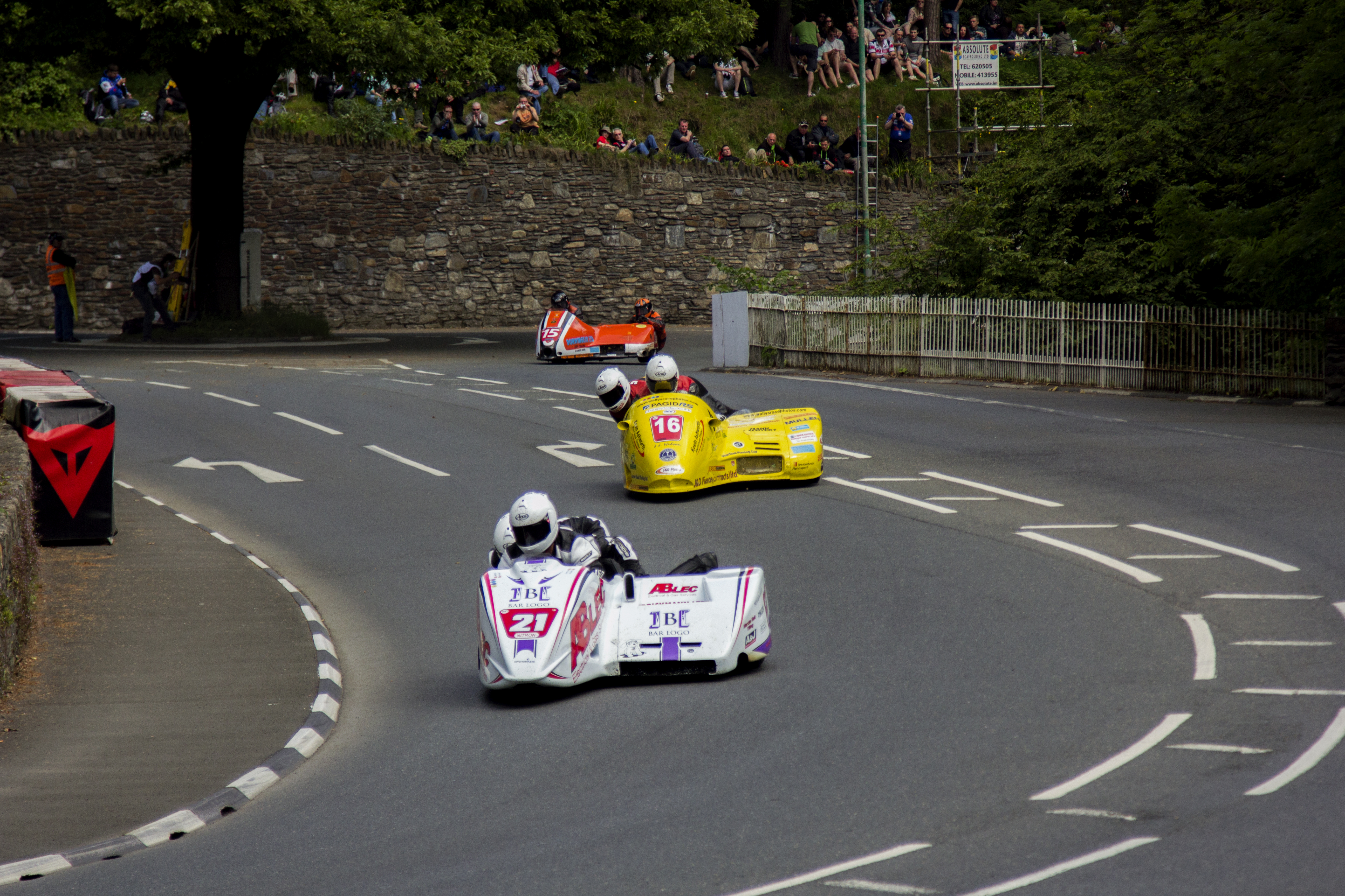 Sidecar racing practise in May 2014 at the left-right 'S' bend at Braddan Bridge